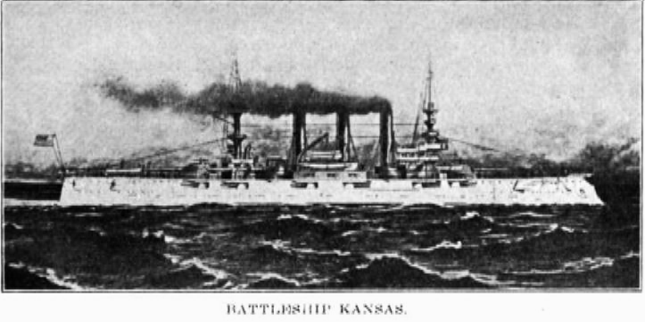 Kansas Frank Wilson Blackmar Standard Pub. Co. Published 1912